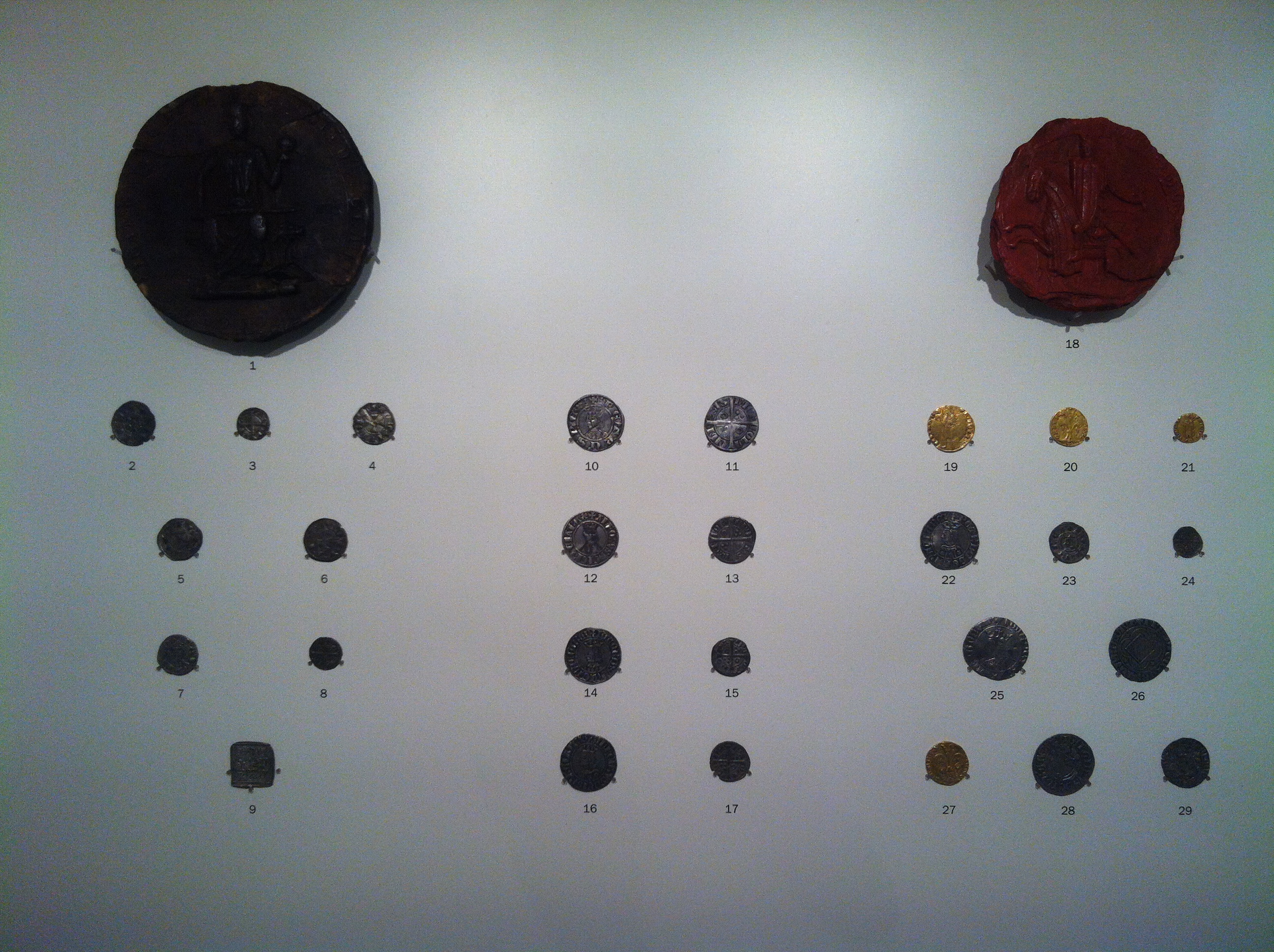 Numismatic collection conserved at MNAC in Barcelona.The collection of the Numismatic Cabinet of Catalonia, open to consultation by researchers, is formed by over 135,000 pieces. The principal numismatic series are represented here, with coins dating from the 6th century BC to the present day, as well as medals, valuable paper, tokens, monetary weights, scales, dies, decorations and insignia. Of all this wealth of material, the most important and emblematic series are without doubt the Catalan ones. They include extremely rare pieces, such as the first silver coins ever struck in the Iberian Peninsula by the Greeks of Emporion, the issues of the Catalan counties, those of the 17th-century Reapers’ War, those of the Napoleonic invasion and the bank notes issued by local councils in Catalonia during the Civil War of 1936-1939